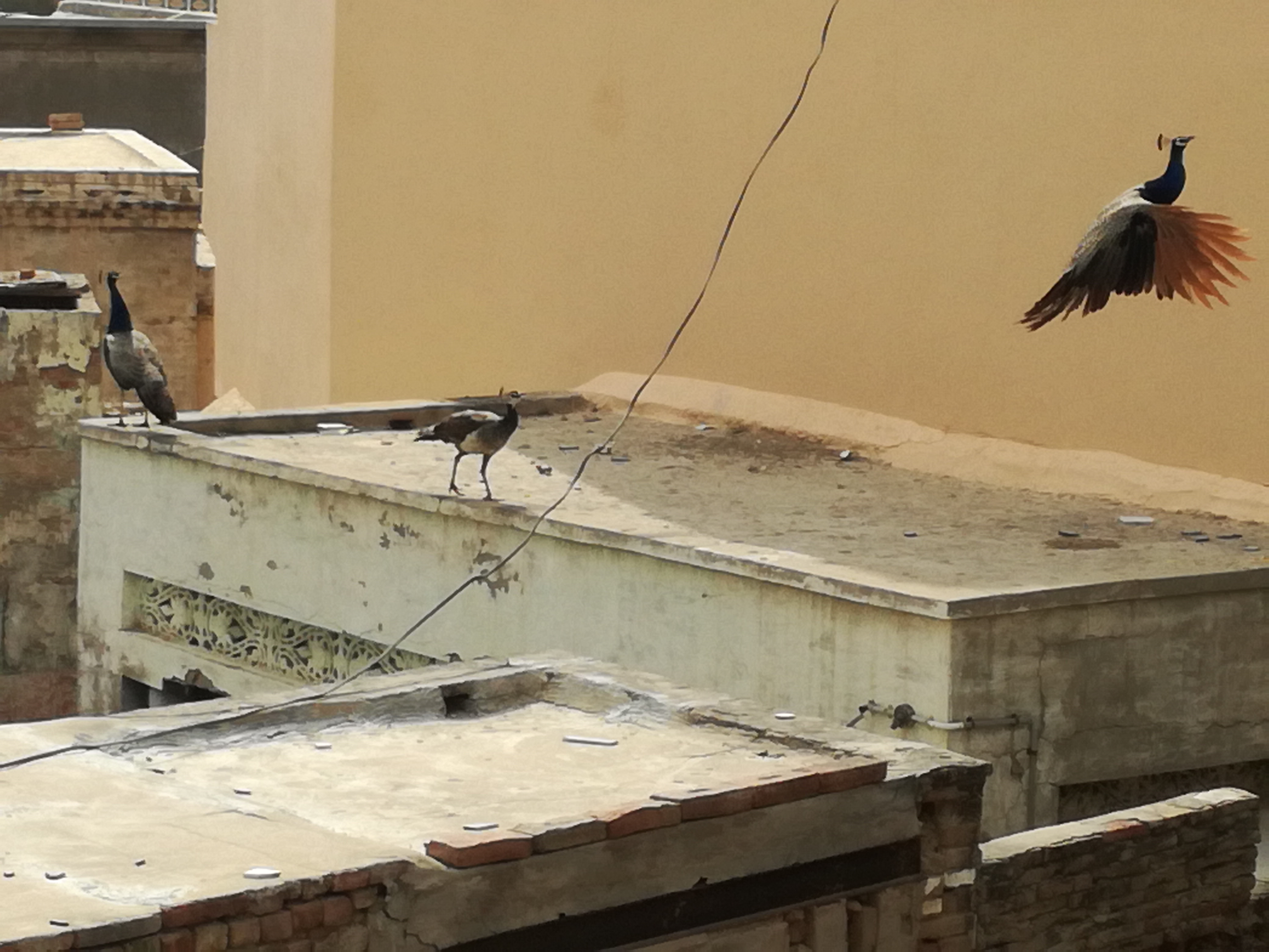 Peafowl flying house to house in Tharparkar during mornings.